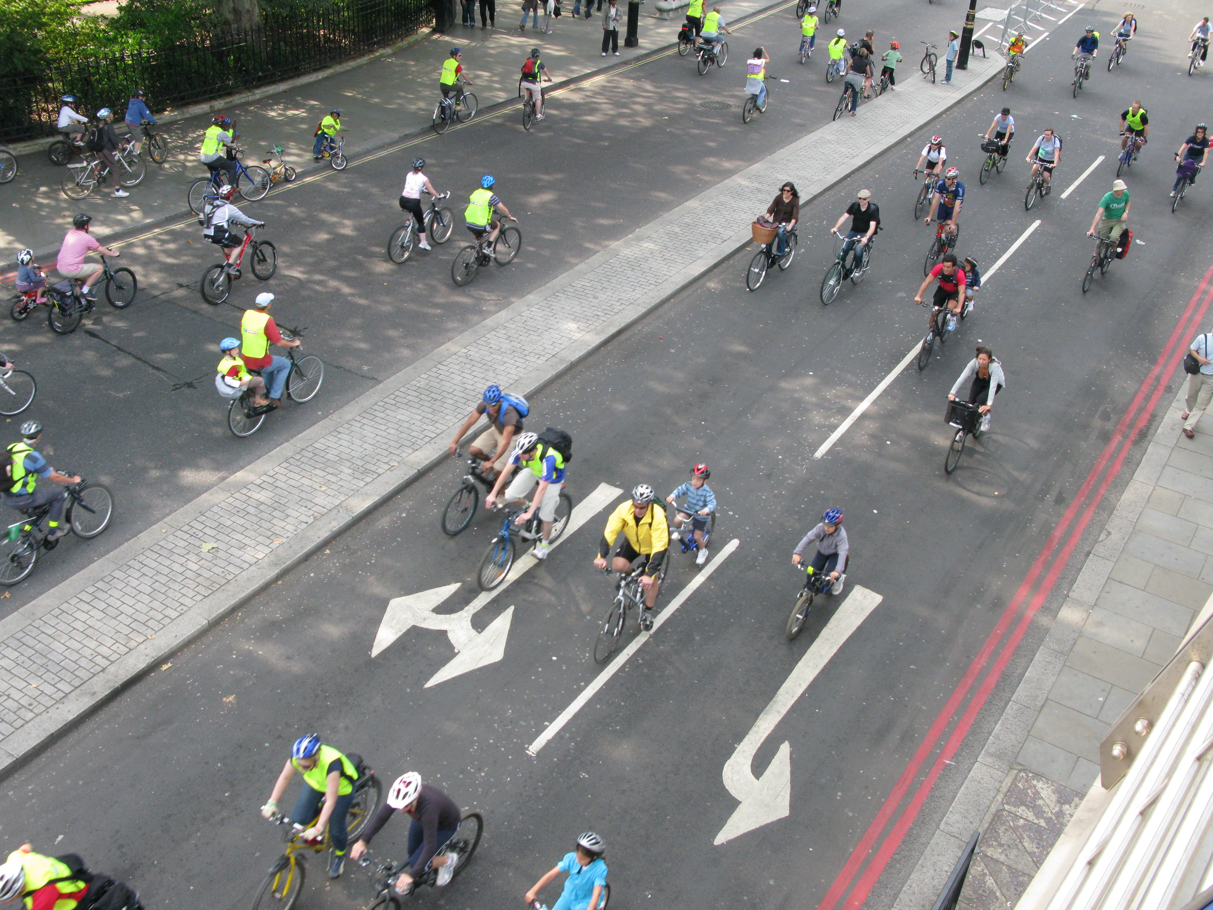 Wikipedia:London Freewheel 2008, seen from a vantage point on Hungerford foot bridge.